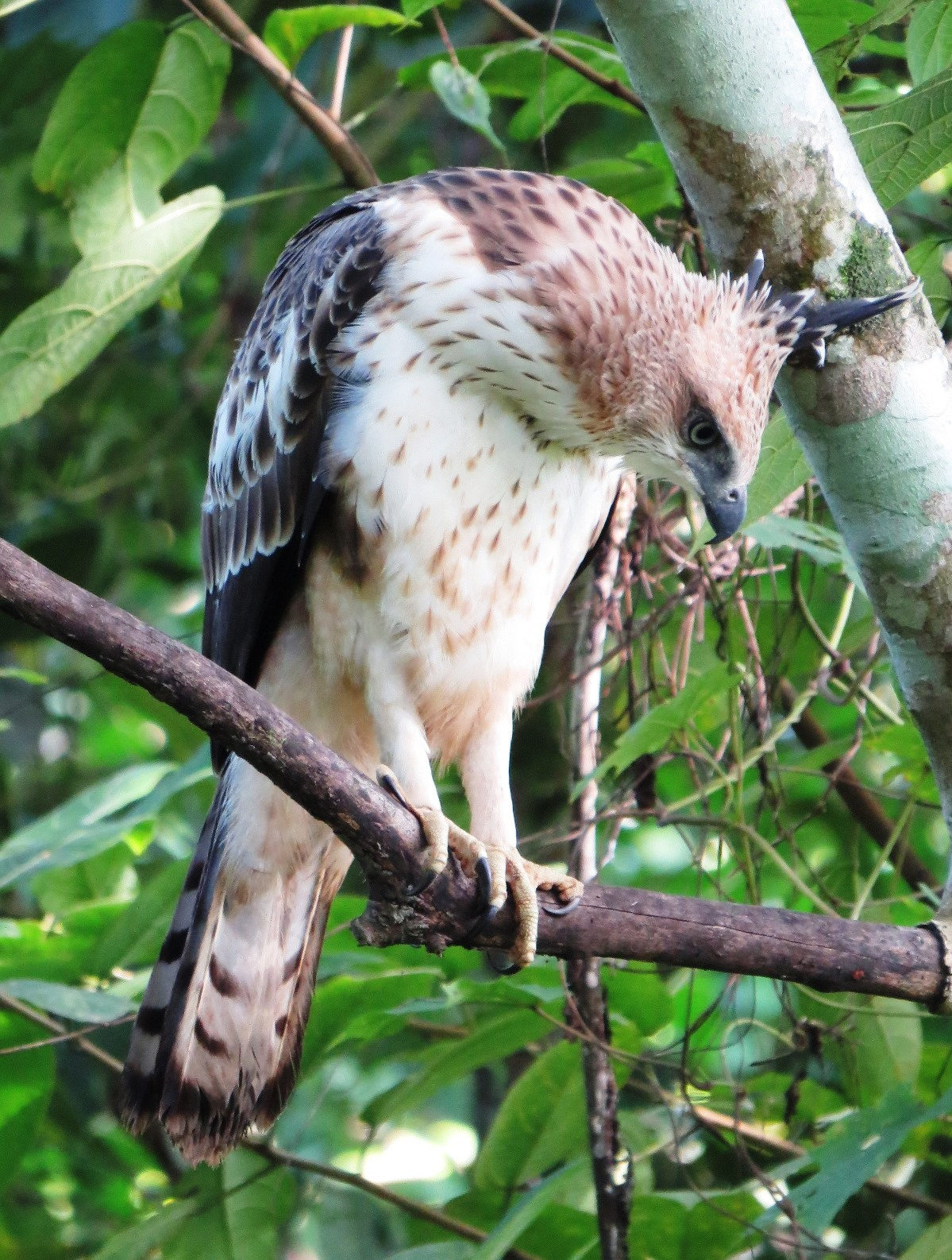 Crested Hawk-eagle Nisaetus cirrhatus in Mayannur, Thrissur, India.